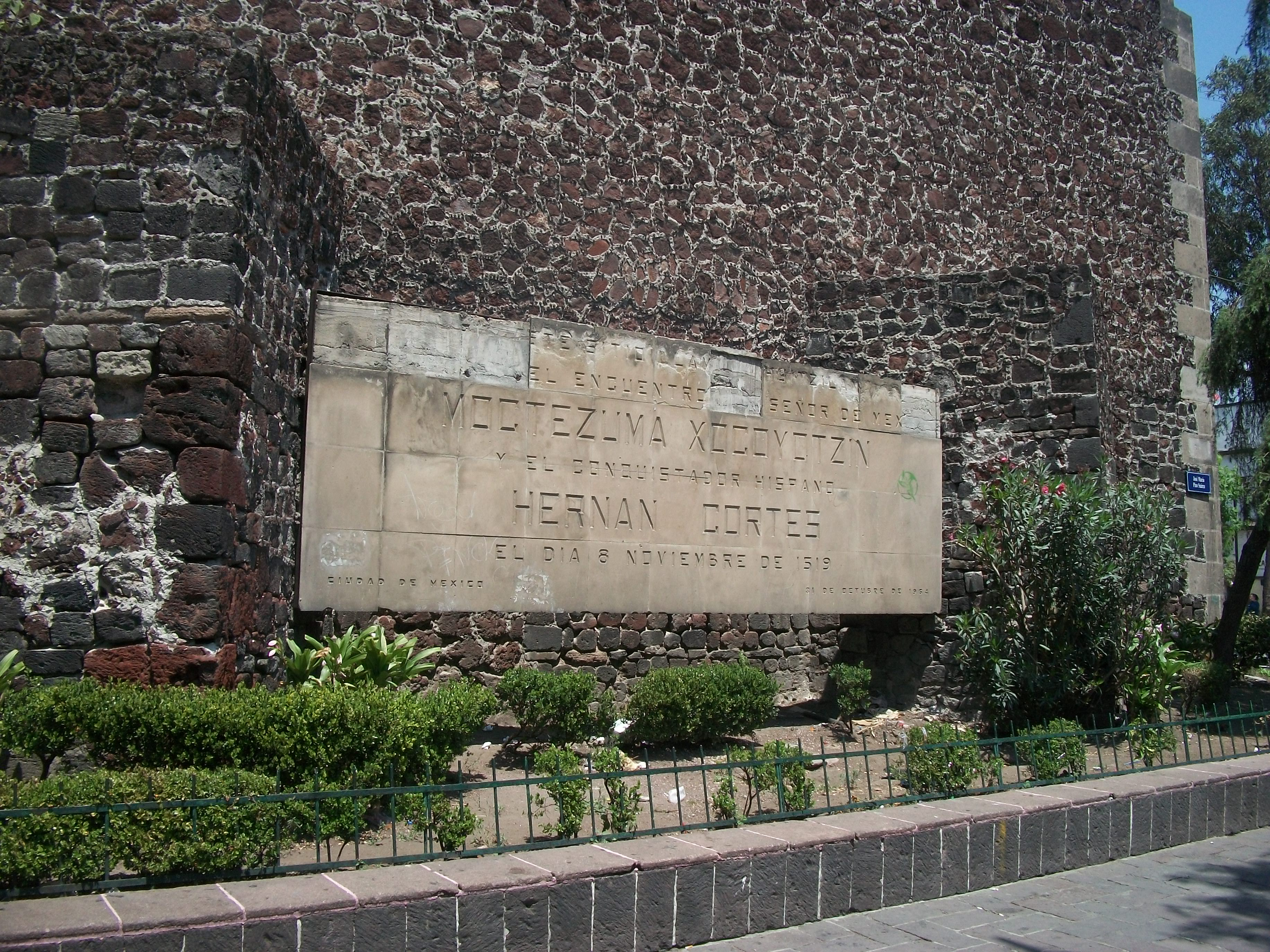 Monument marks the site of the first meeting between the Spanish expedition of Hernán Cortés and the Mexica tlatoani Moctezuma II in 1519. It is located at the corner of José María Pino Suárez and the Republic of El Salvador, in the Historic center of Mexico City.